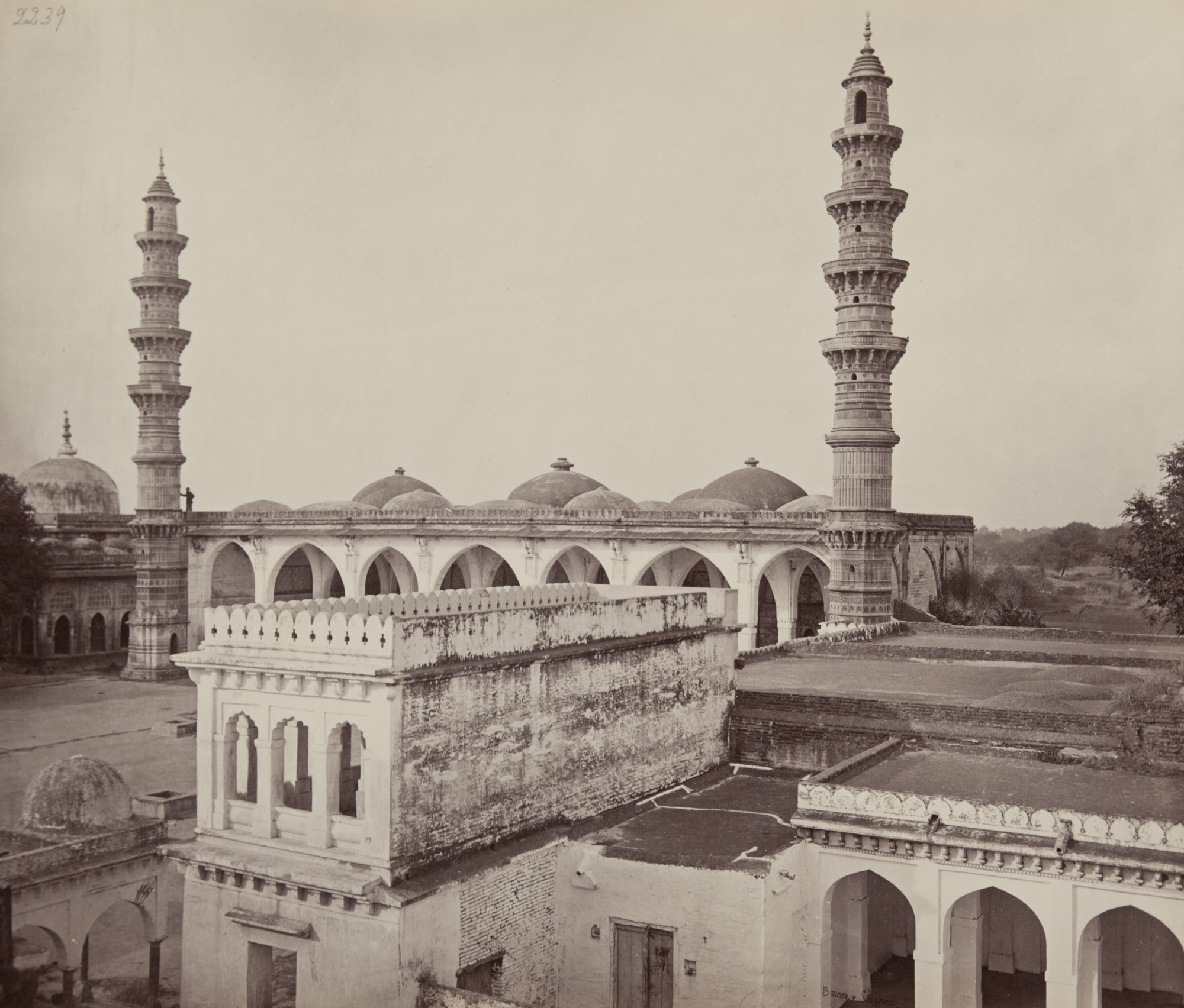 This is an image of Shah Ahum's mosque. Artist: Bourne and Shepherd Artist Bio = Indian photography studio, established 1866 Creation Date = c. 1871 Process = albumen print Credit Line = Gift of the Catherine and Ralph Benkaim Collection Accession Number = 2006.045.060